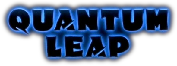 Quantum Leap TV Series title